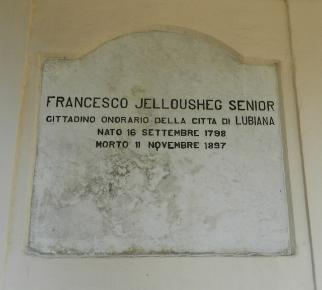 Franz Jelovsek (Francesco Jellousheg) Headstone at the Family's burial crypt in Rijeka (Fiume) cementry